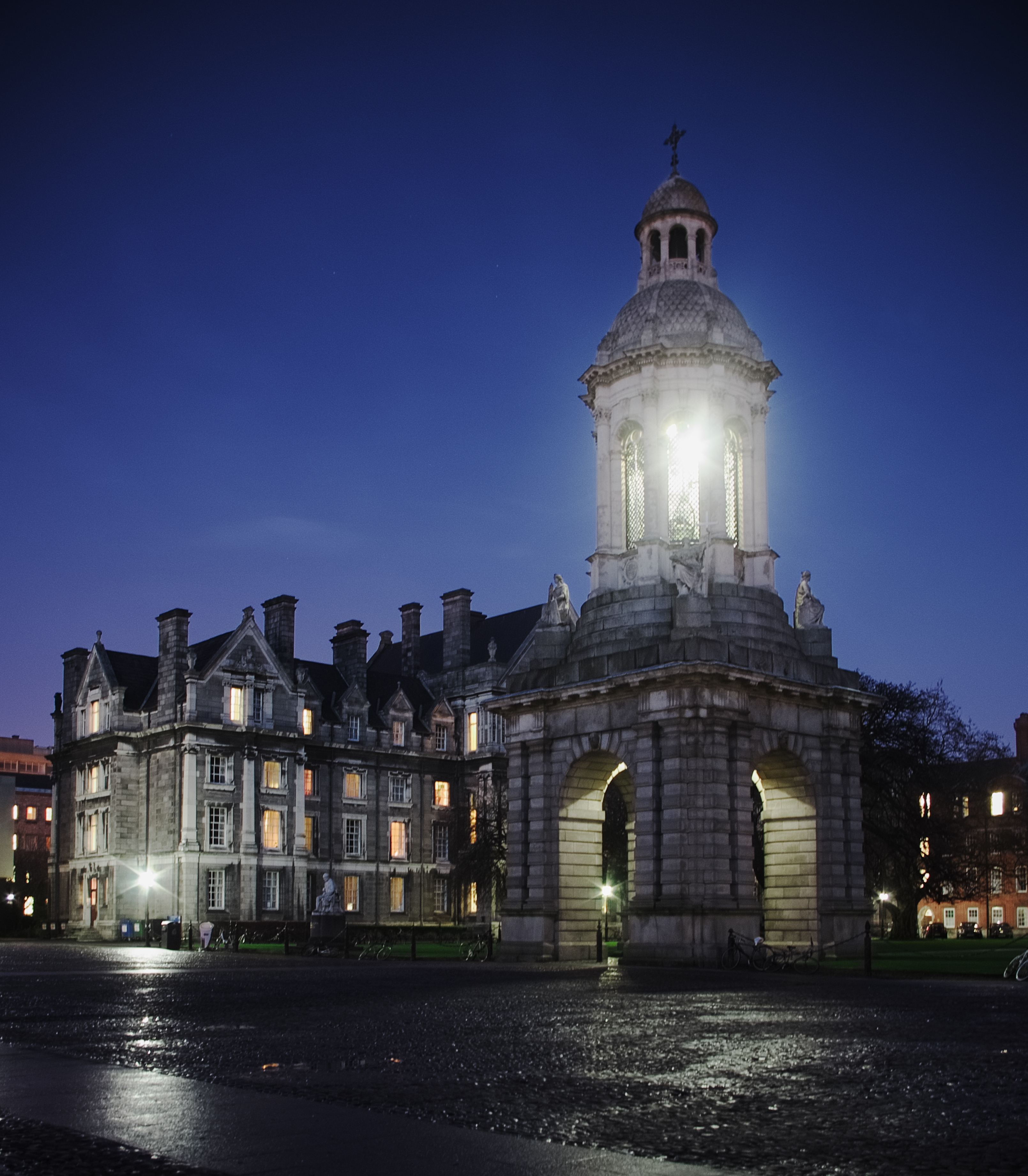 Campanile by night, Trinity College, Dublin